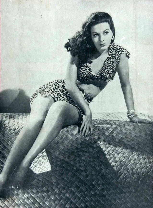 Pin-up photo of Ramsay Ames for the April 10, 1945 issue of Brief, a United States Army Air Forces Pacific Oceans Areas (AAFPOA) magazine fully staffed by military personnel.